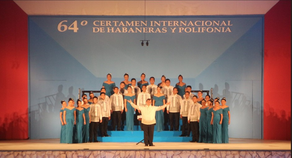 The UP Singing Ambassadors saluting the audience after one of its performances. (Madrid PE photo)